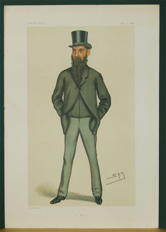 Statesmen No.281: Caricature of Lord Kensington MP. Caption reads: "a Whip"